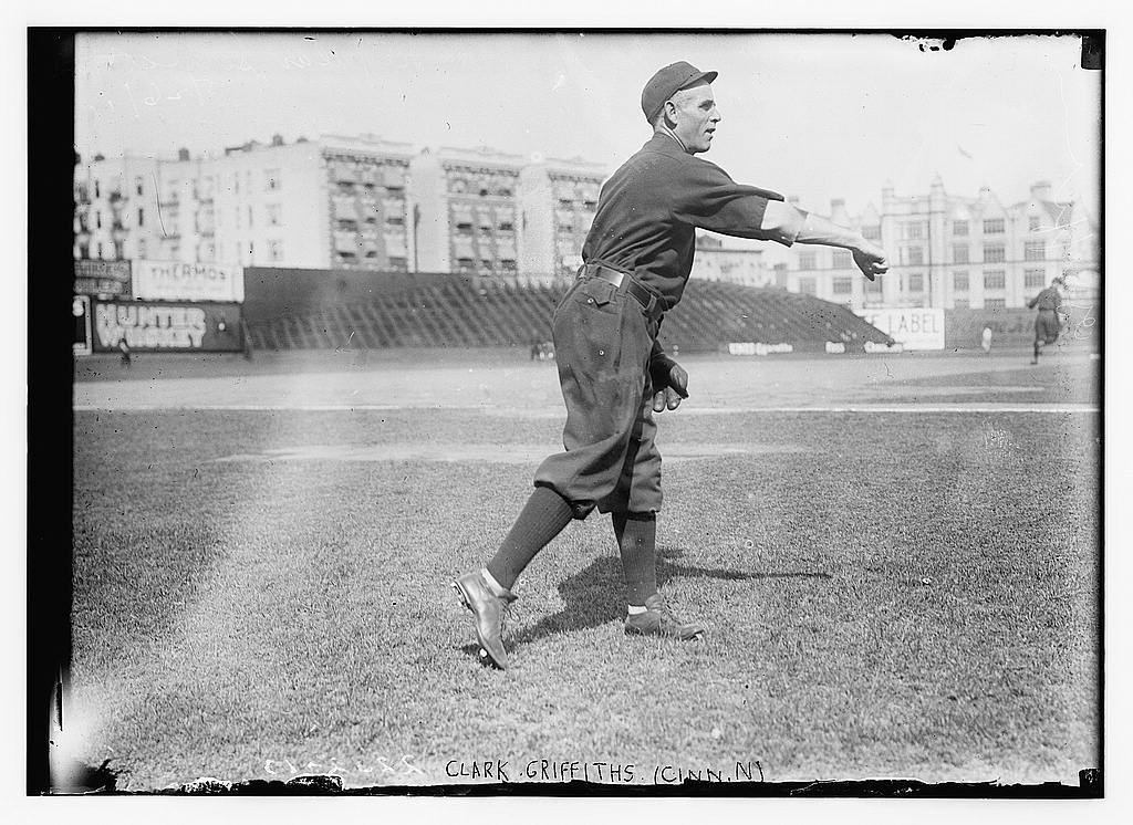 Bain News Service,, publisher. [Clark Griffith, Cincinnati, NL, at Hilltop Park, New York City (baseball)] [1909] 1 negative : glass ; 5 x 7 in. or smaller. Notes: Original data provided by the Bain News Service on the negatives or caption cards: Clark Griffiths (Cinn. N). Corrected title and date based on research by the Pictorial History Committee, Society for American Baseball Research, 2006, and the source: Flickr Commons project, 2008. Forms part of: George Grantham Bain Collection (Library of Congress). Subjects: Baseball Format: Glass negatives. Repository: Library of Congress, Prints and Photographs Division, Washington, D.C. 20540 USA, General information about the Bain Collection is available at Higher resolution image is available (Persistent URL): Call Number: LC-B2- 2202-10